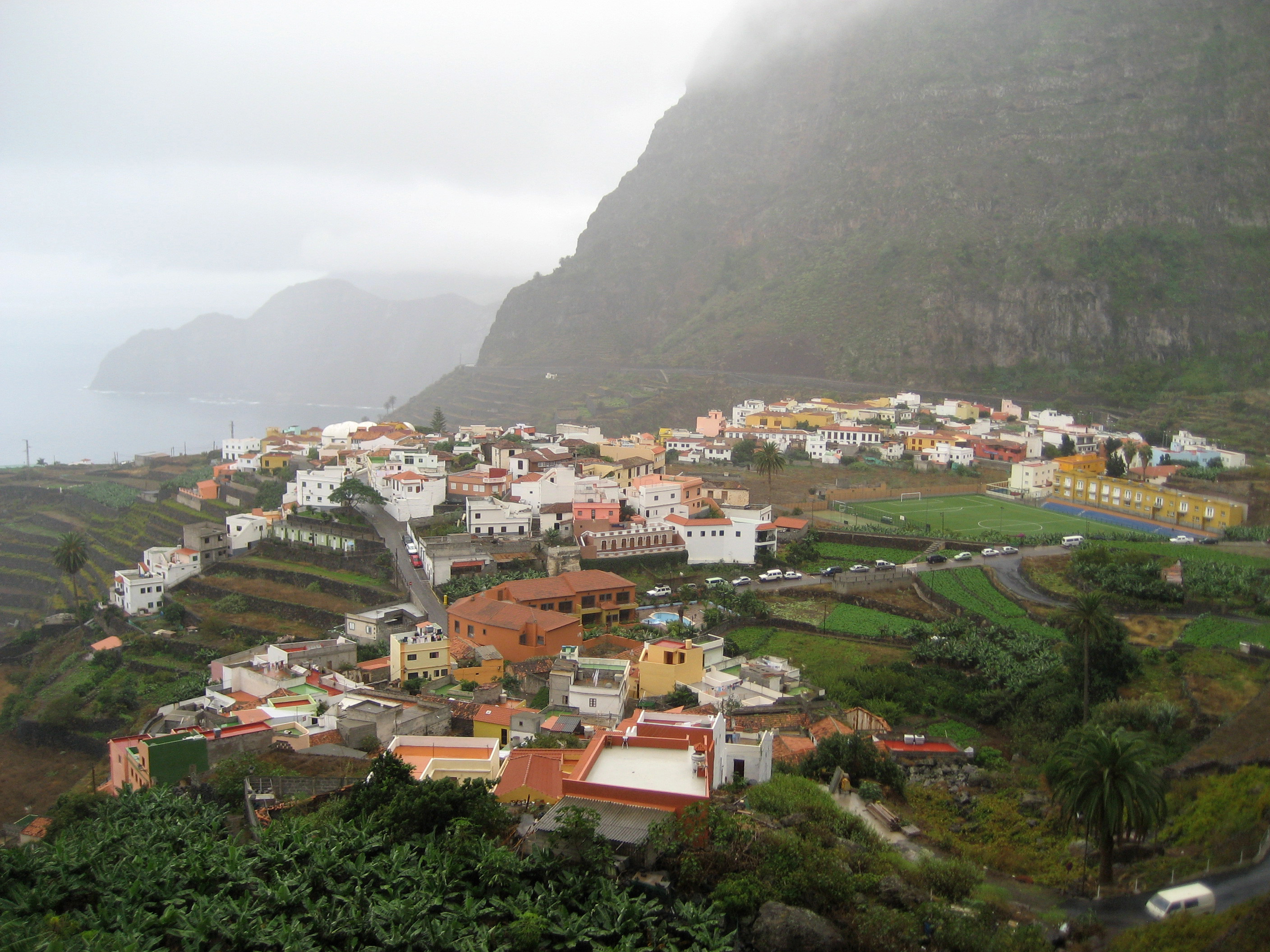 View of houses in a part of Agulo